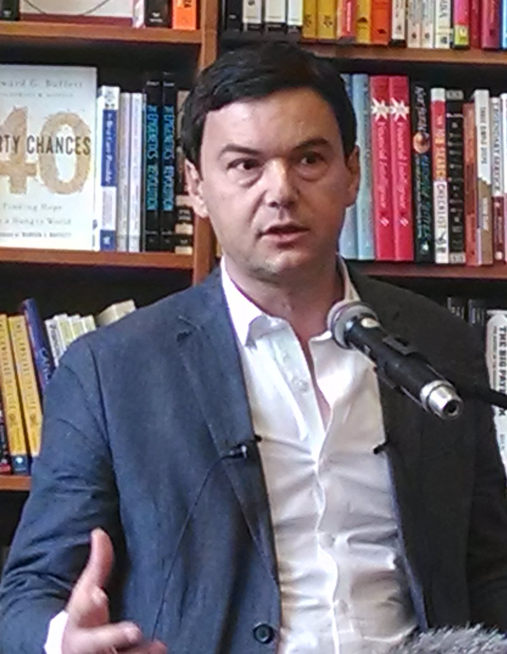 French economist Thomas Piketty at the reading for his book Capital in the Twenty-First Century, on 18 April 2014 at the Harvard Book Store in Cambridge, Massachusetts. Crop